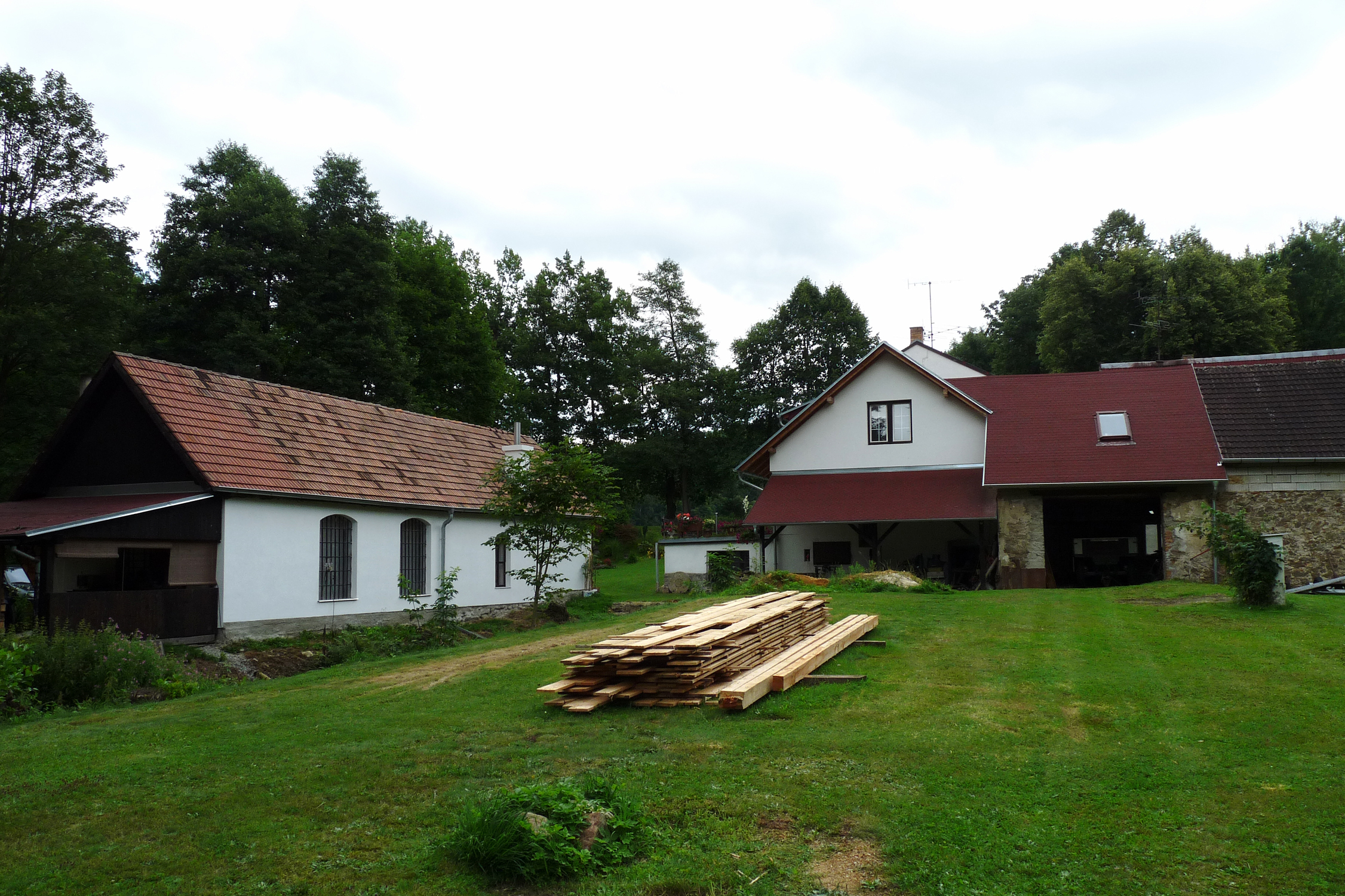 Trajerův mlýn (Trajerův mill) near the village of Březí, on the Keblanský Stream at Mezilesí pond, České Budějovice District, Czech Republic. Česky: Trajerův mlýn na Keblanském potoce u rybníka Mezilesí nedaleko vsi Březí v okrese České Budějovice.